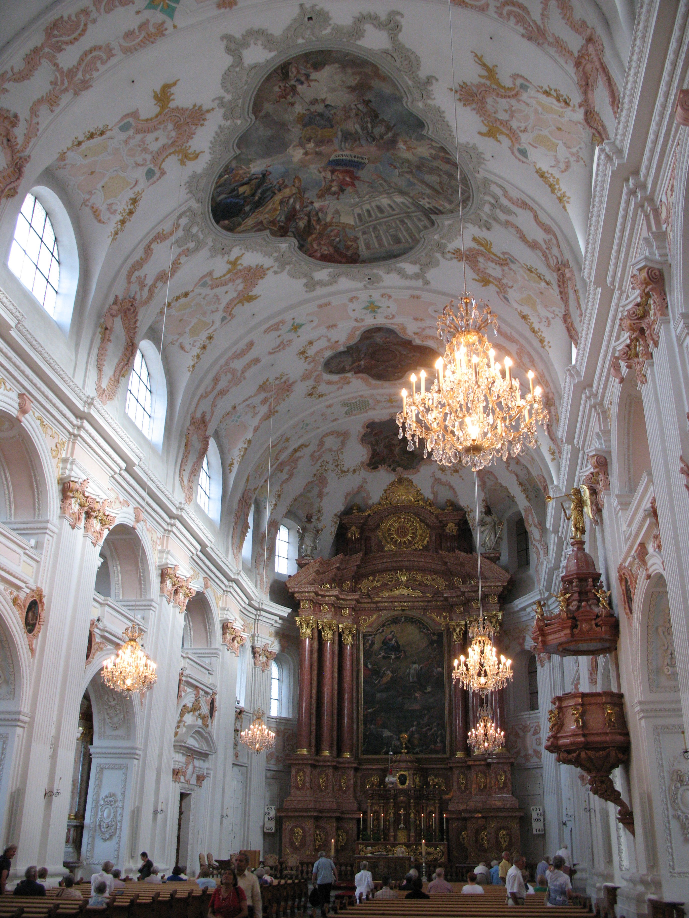 Jesuit Church, Luzern, Switzerland